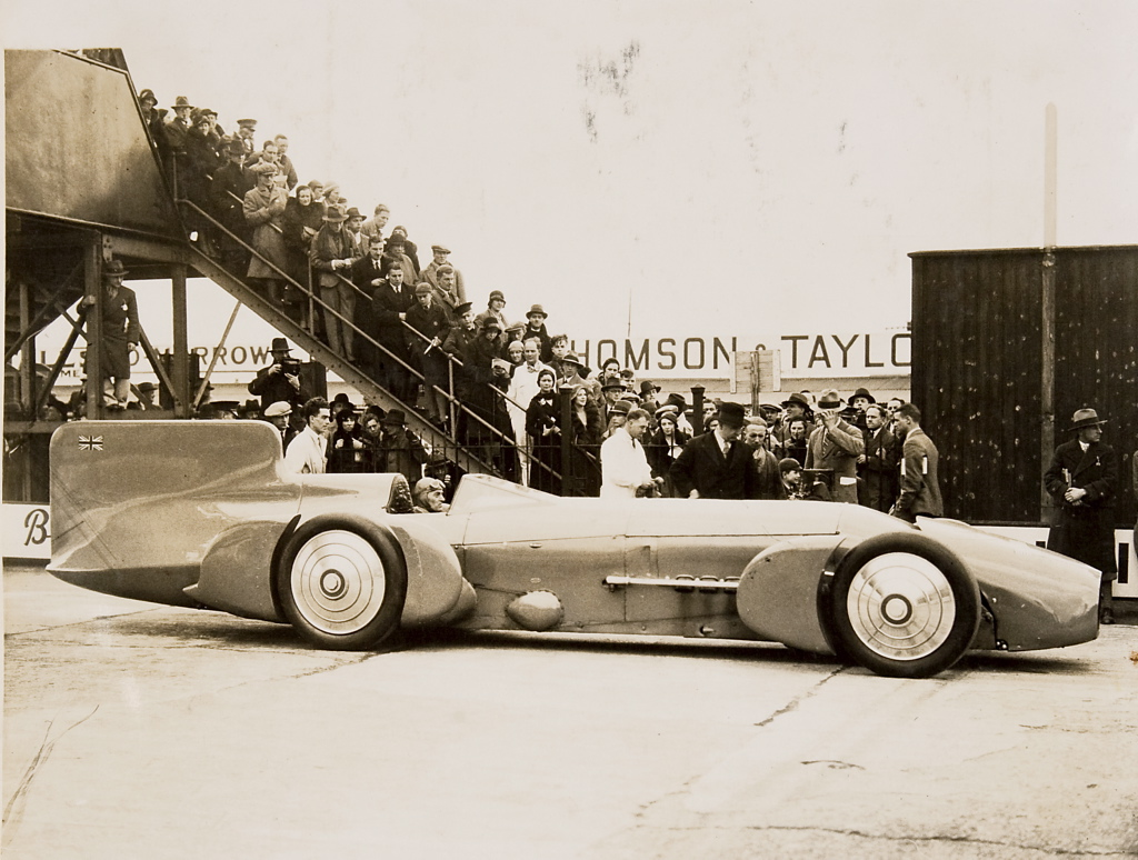 Part Of: Powerhouse Museum Collection General information about the Powerhouse Museum Collection is available at Persistent URL